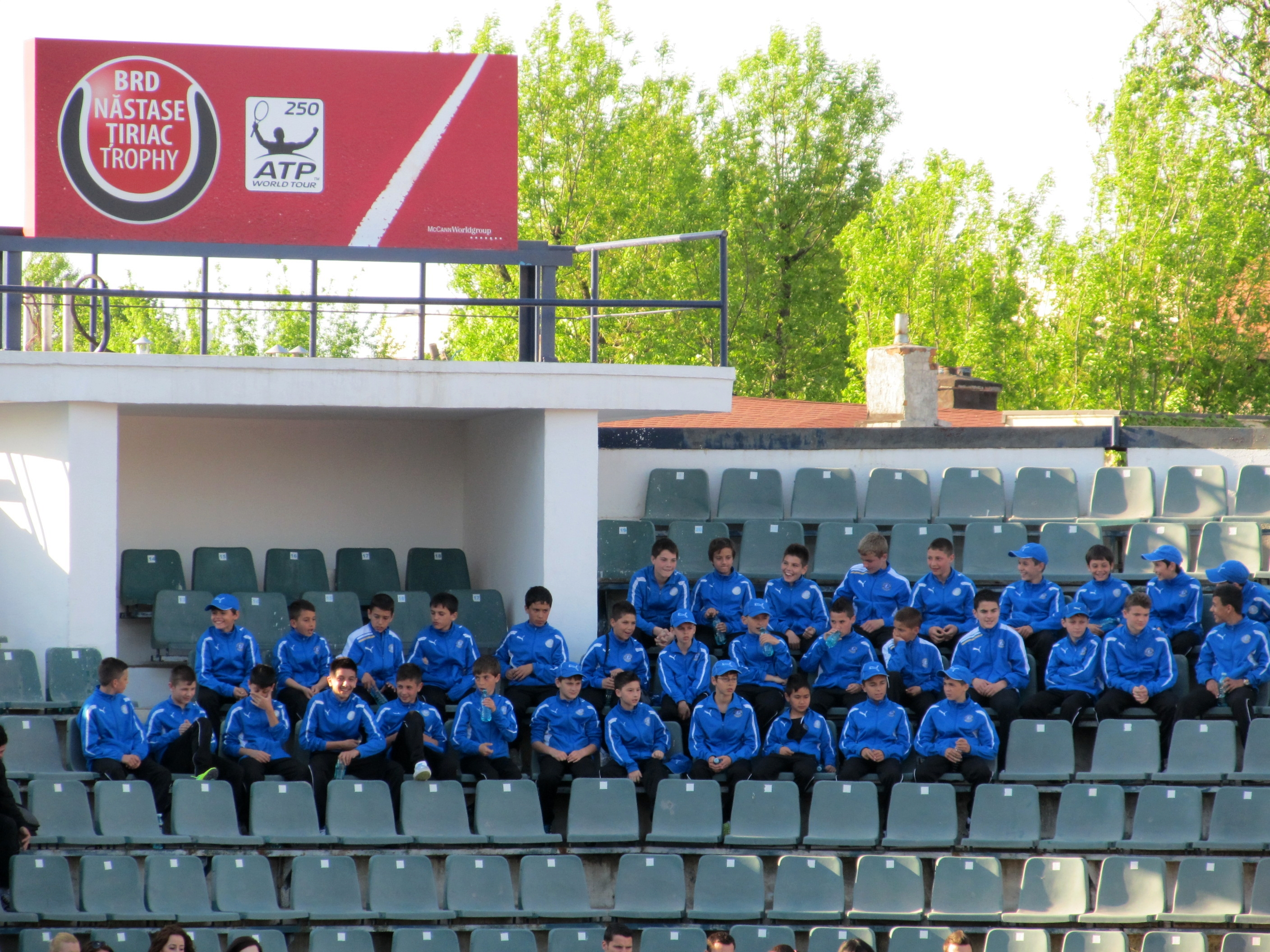 Gheorghe Hagi football academy players at 2012 BRD Năstase Țiriac Trophy cheering for the academy owner, Gheorghe Hagi, who played an exhibition tennis match alongside Iosif Rotariu, Andrei Pavel and Horia Tecău. Gheorghe Hagi football academy is the youth team of FC Viitorul Constanța